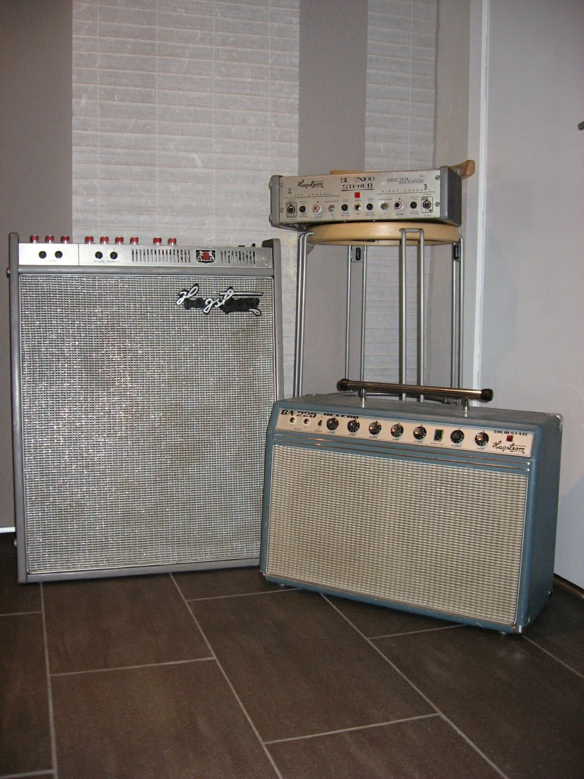 Three Hagström amplifiers GA225 from 1969, serial no. 749040 GT225 from 1972, serial no. 53 850020 Stereo 2x100W from 1976, serial no. 53 979044